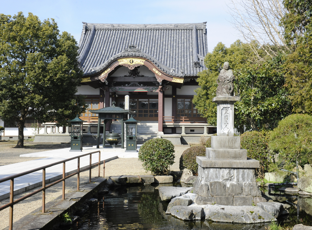 Temple building and a pond named Sakuraga-ike with the statue of St. Koen, Rengein-Tanjoji, Tamana, Kumamoto